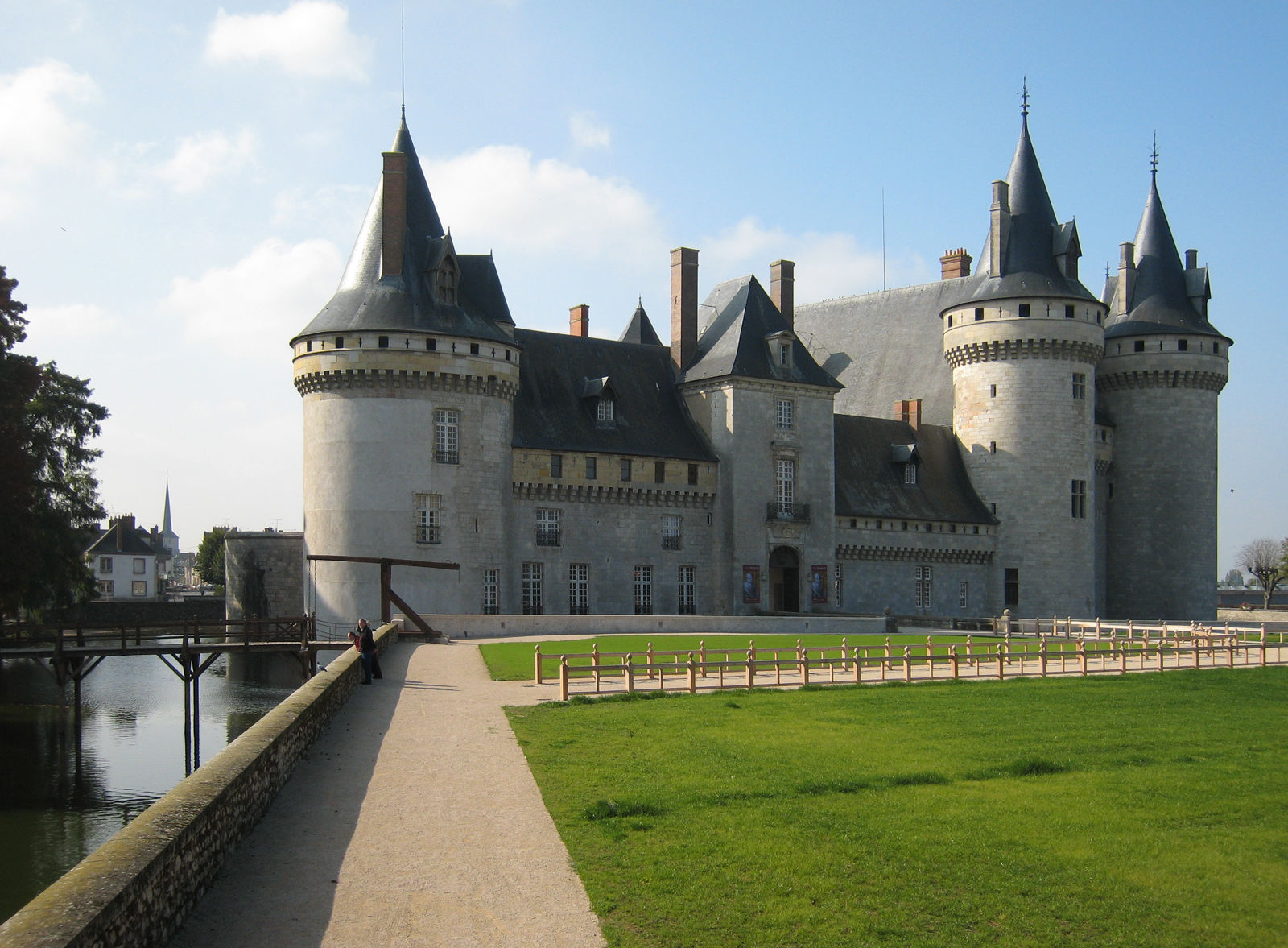 Castle of Sully-sur-Loire, located in the county of Loiret, France